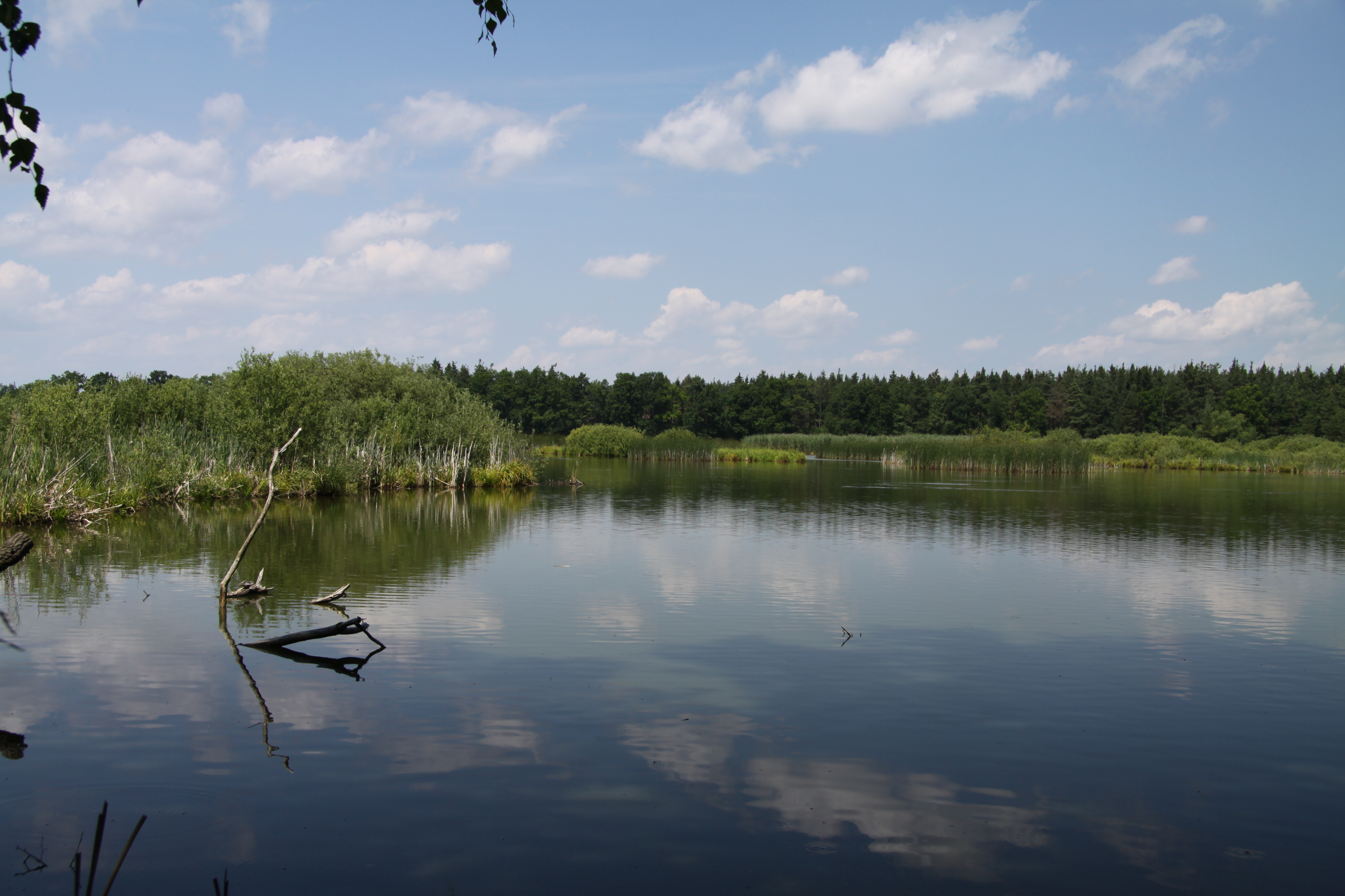 Nature reserve Rod around Rod pond in Tábor District, Czech Republic - Google Maps - Google Earth